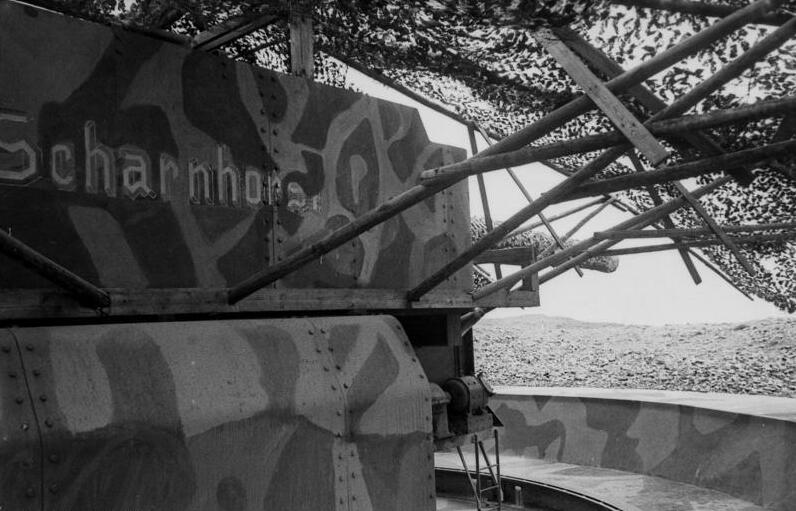 Information added by Wikimedia users.28cm SKL/45